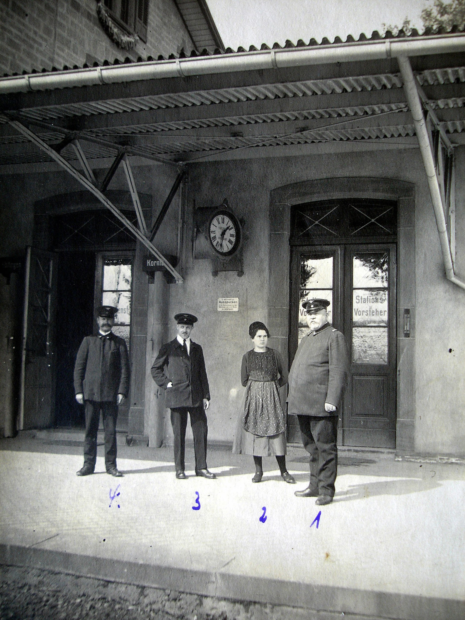 Ditzingen Station ~1914. Station Master Karl Friedrich Gruber with daughter Klara Gruber.